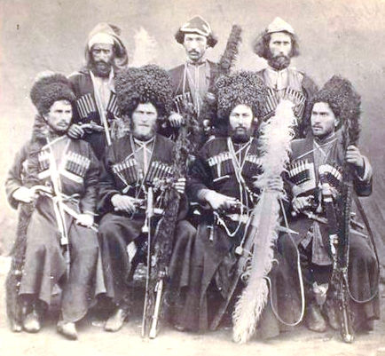 Image Title: Tipy: Mingrel'tsy. Alternate Title: Types of Life: The Mingrelians